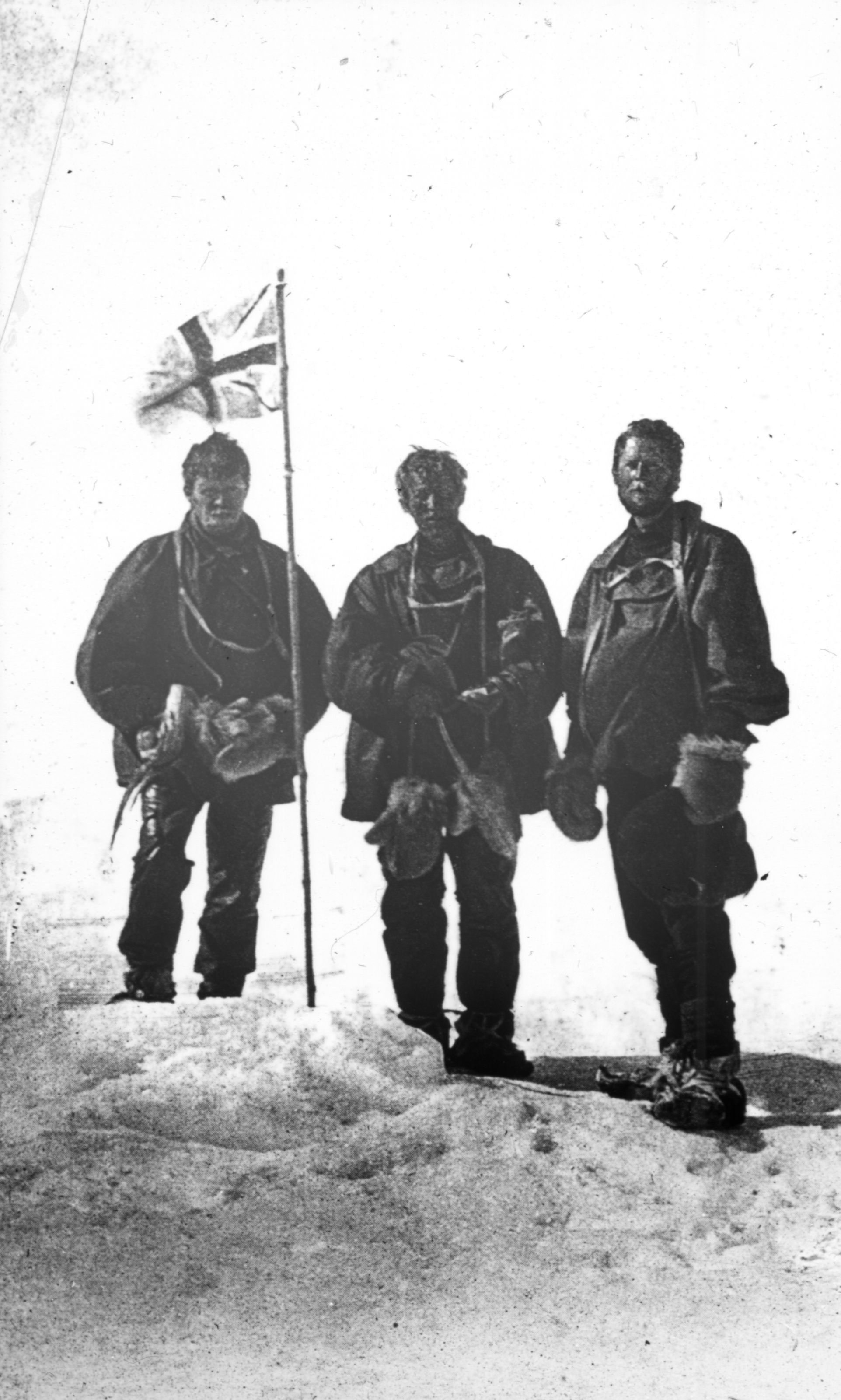 Photographs of the Nimrod Expedition (1907-09) to the Antarctic, led by Ernest Shackleton